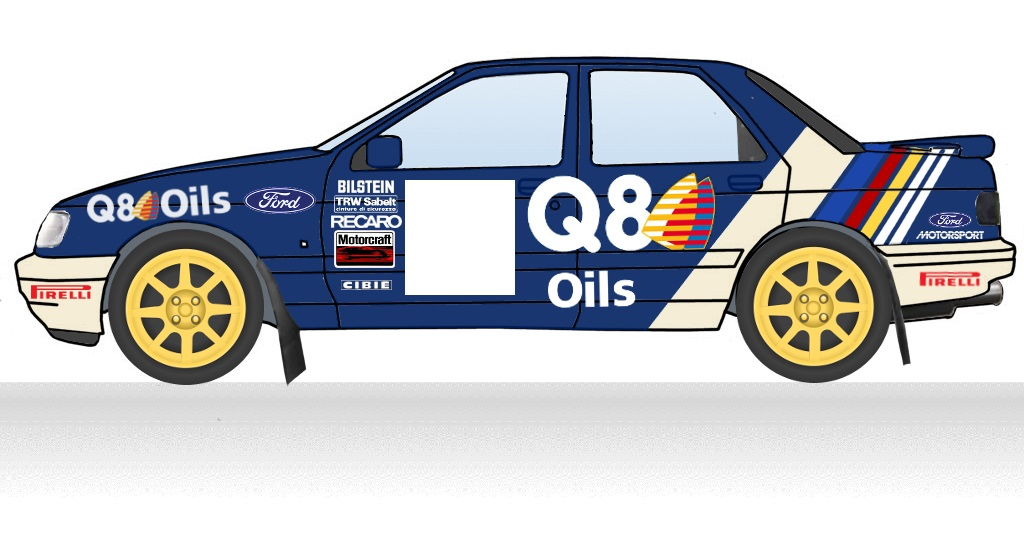 1990 Q8 Ford livery